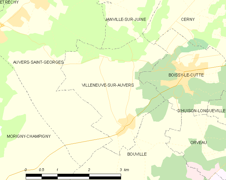 Map of French municipality Villeneuve-sur-Auvers